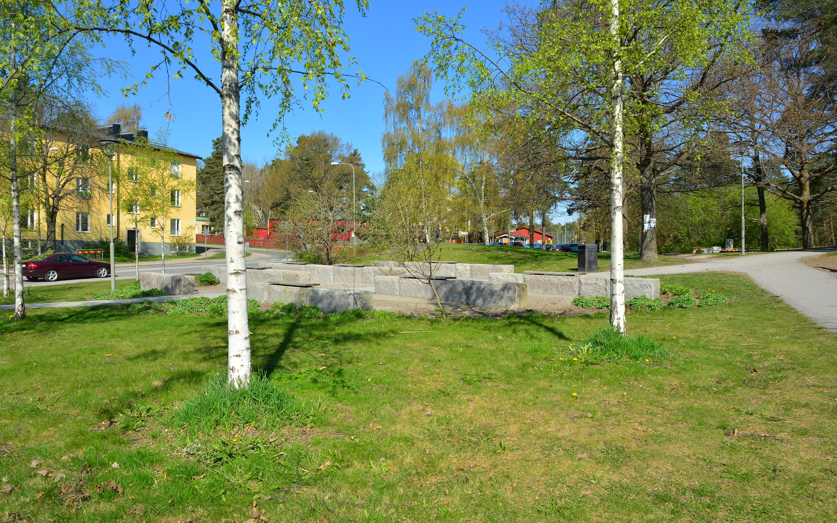 Willy Brandts Park in Hammarbyhöjden, southern Stockholm, Sweden.